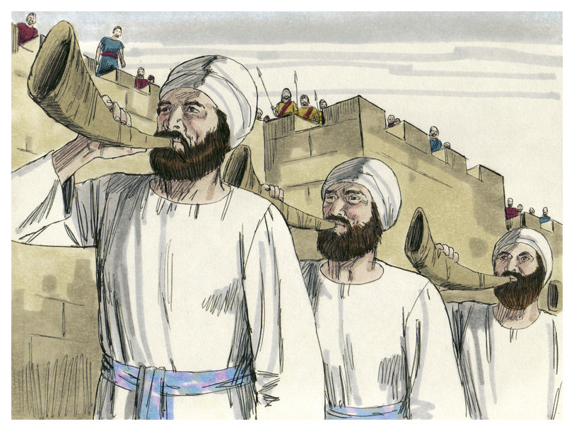 Biblical illustration of Book of Joshua Chapter 6